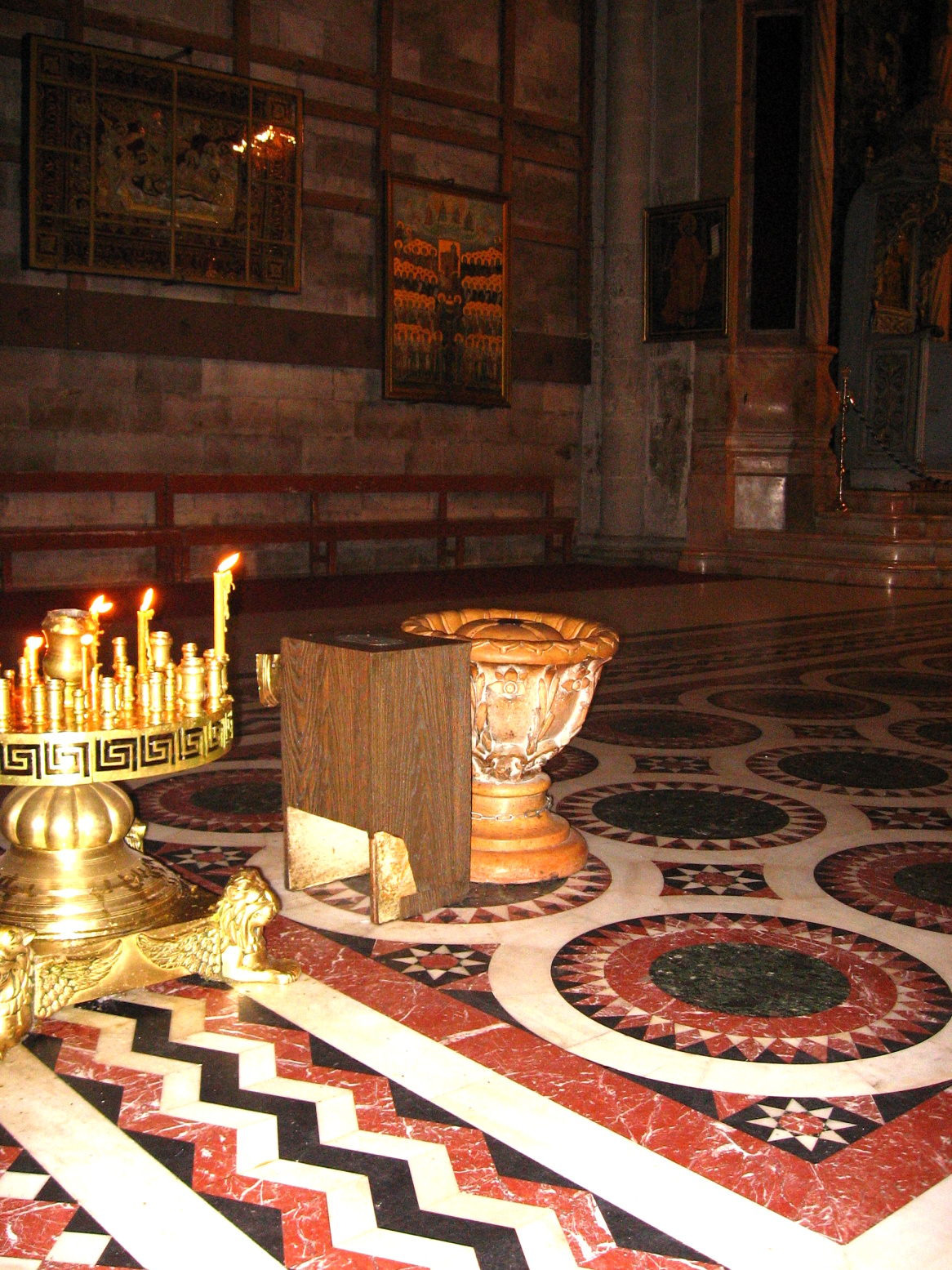 The omphalos and the North wall of the Catholicon, Church of the Holy Sepulchre, Jerusalem.